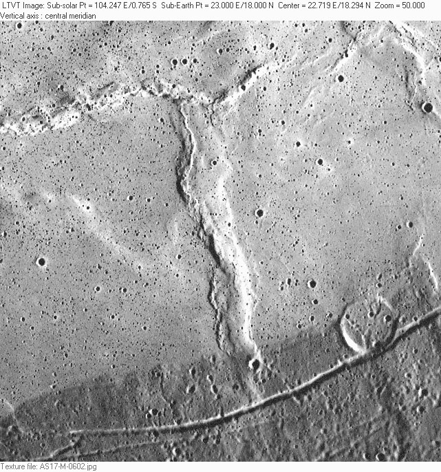 Dorsum Nicol with Rimae Plinius south and Dorsa Lister north. Detail from metric image AS17-M-0602, remapped to a north-up aerial view by LTVT.